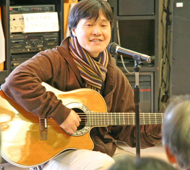 X Japan vocalist Toshi.